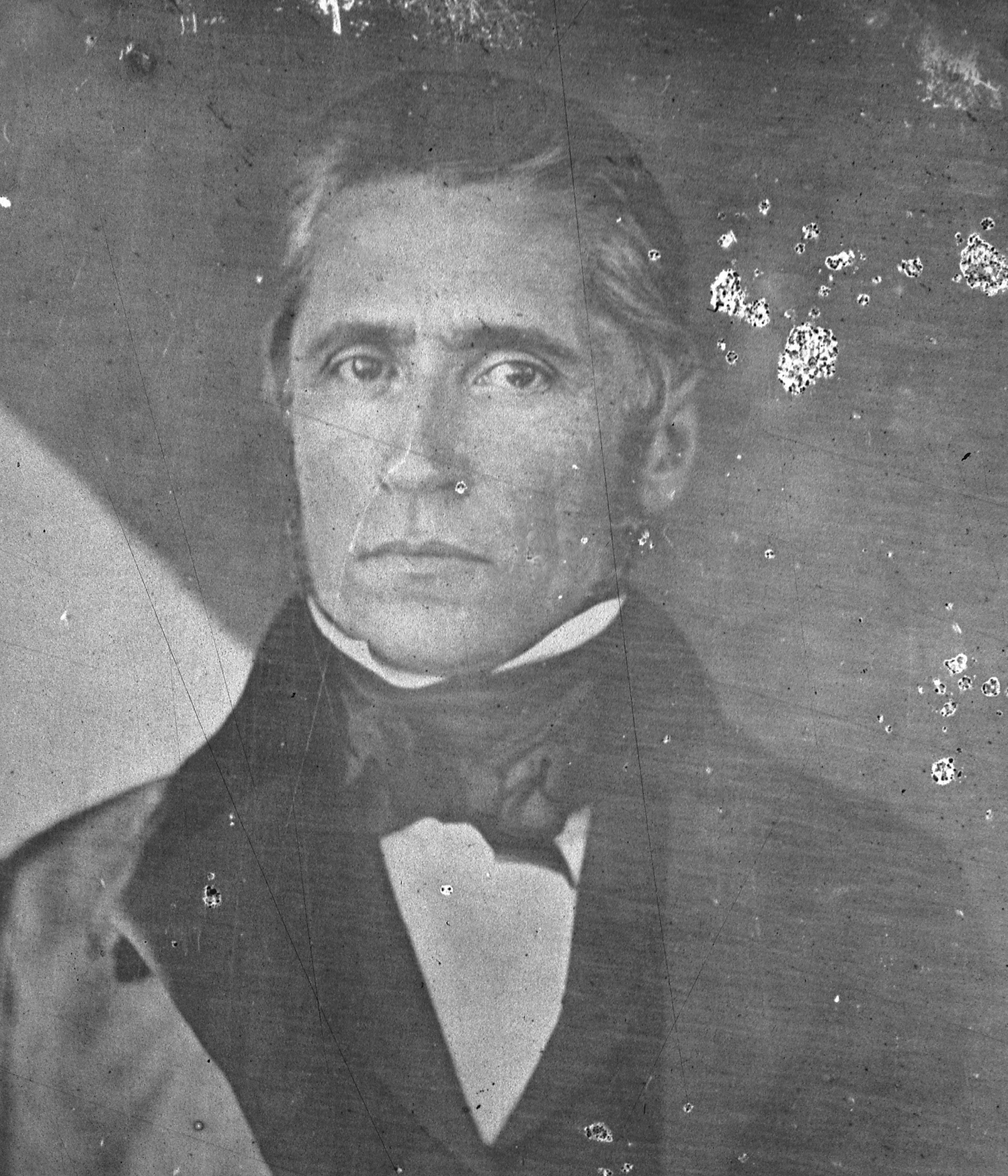 Paweł Strzelecki (1797-1873) - Polish explorer and geologist. He is noted for his contributions to the exploration of Australia, particularly the Snowy Mountains and Tasmania as well as climbing and naming the highest mountain on the continent – Mount Kosciuszko